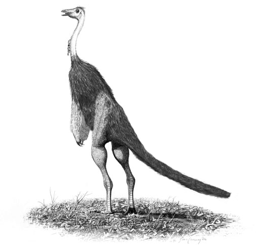 The theropod dinosaur Struthiomimus altus by John Conway [1]